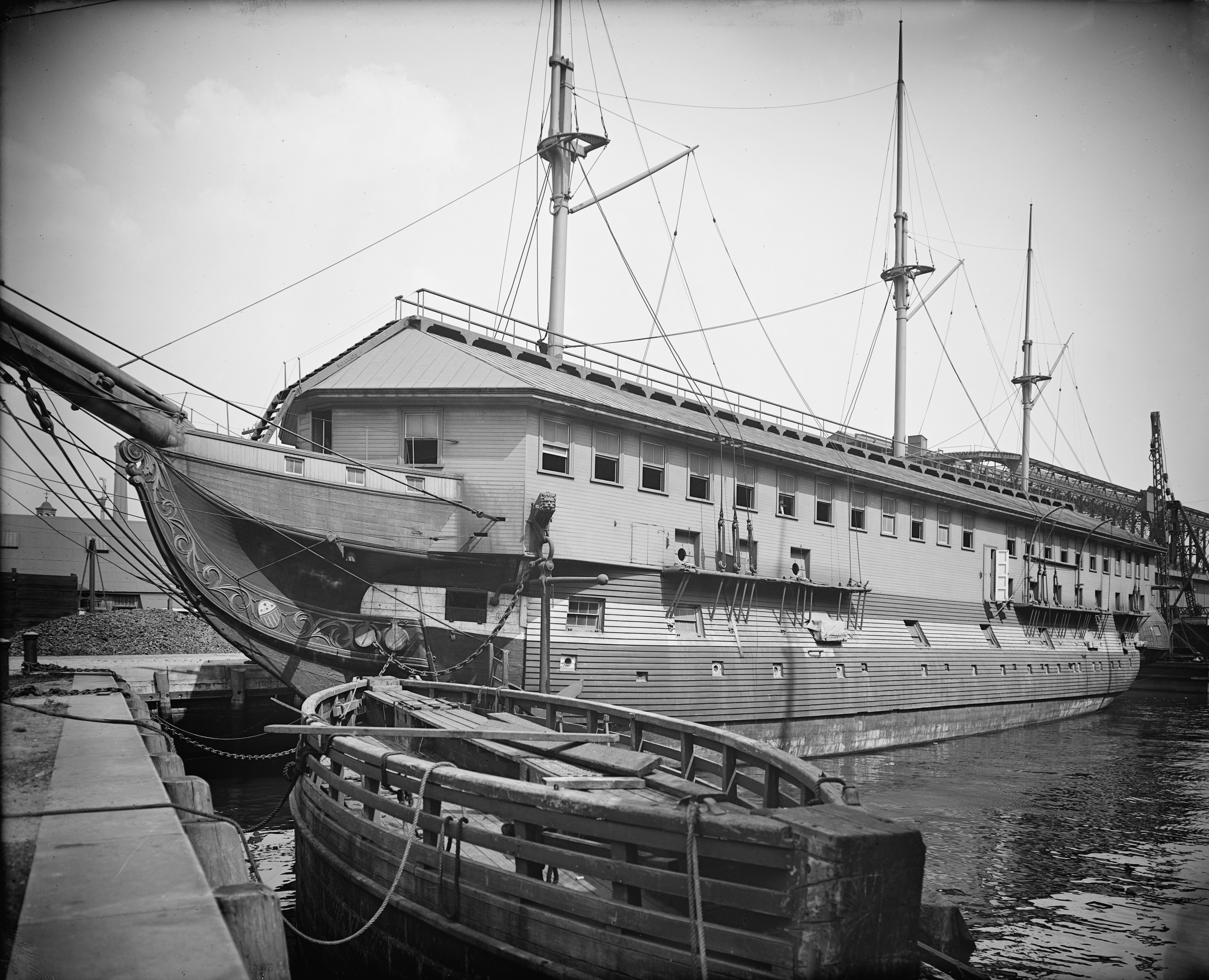 USS Constitution as a barracks ship ca. 1905 with the caisson gate for Dry Dock No. 1 at the Charlestown Navy yard floating in the foreground